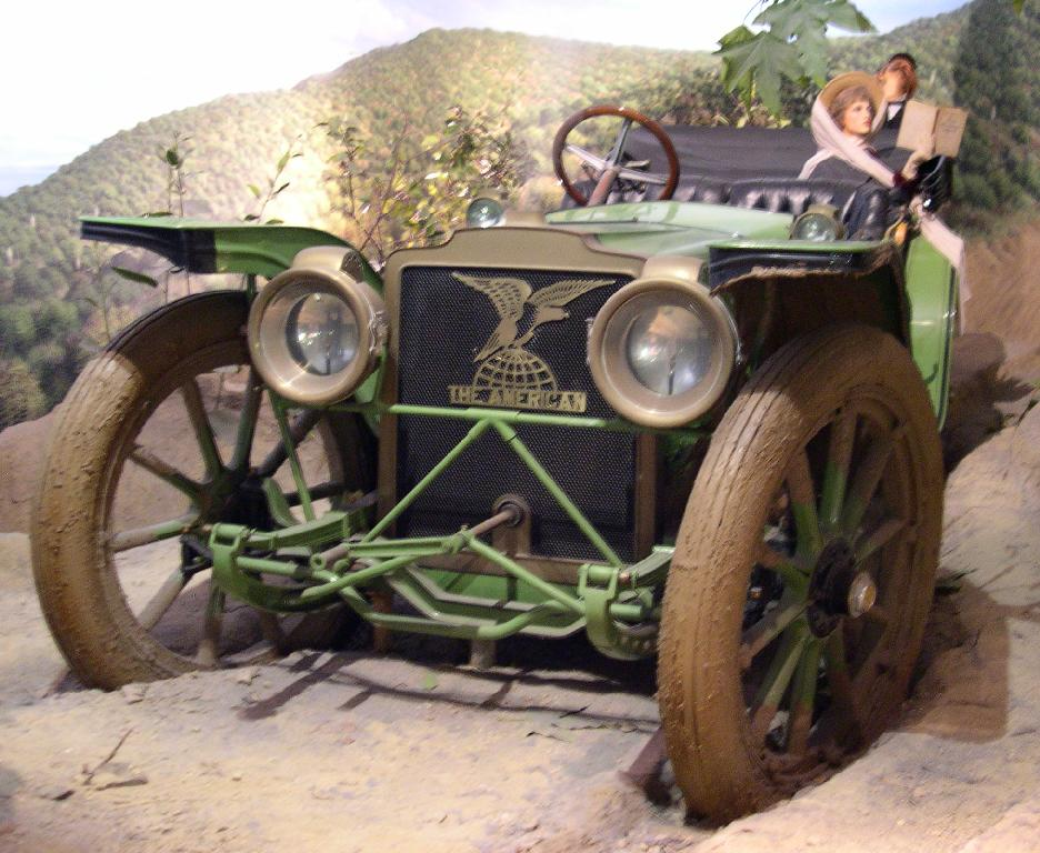 1911 American Underslung From the Petersen Automotive Museum, Los Angeles, CA